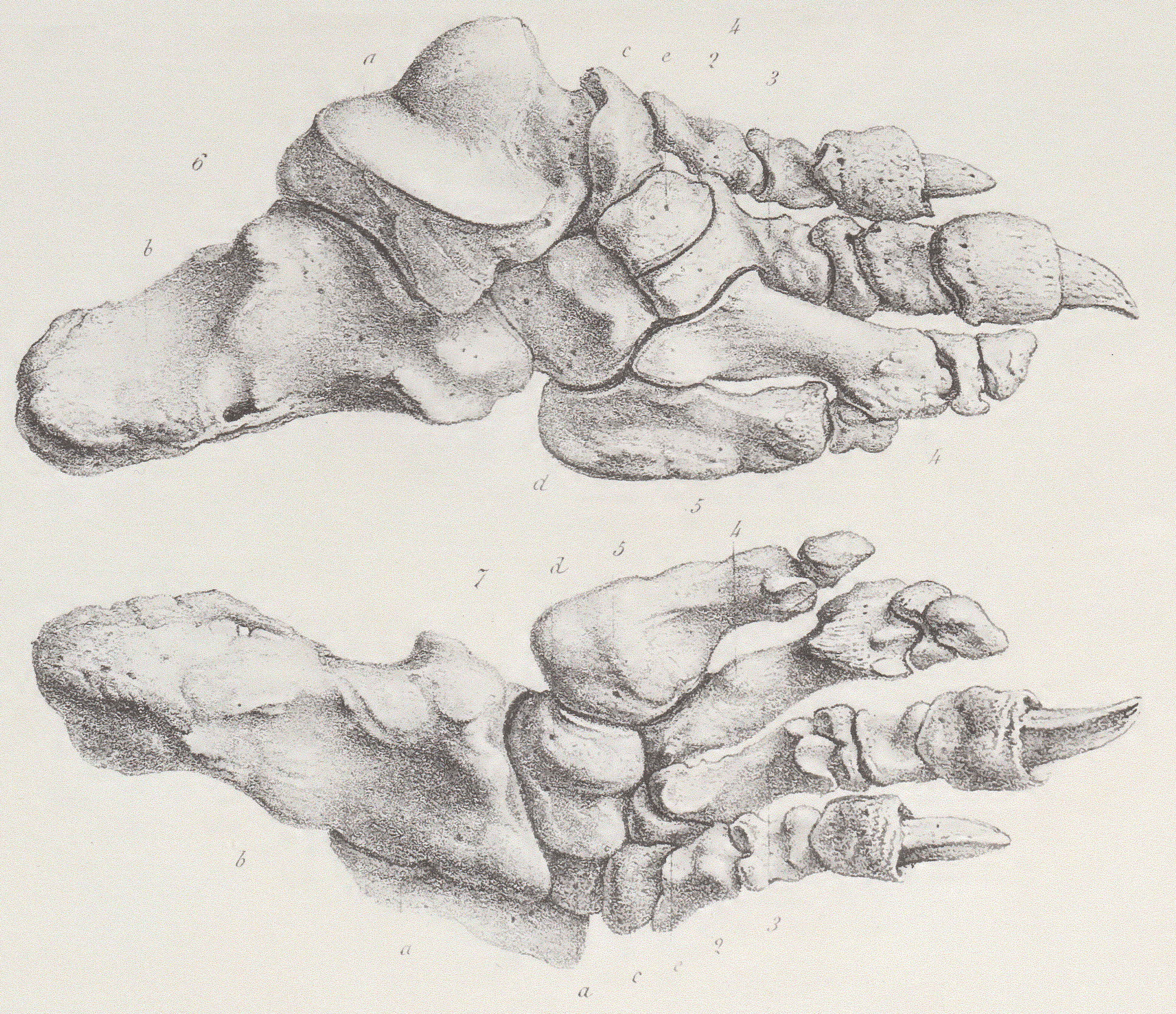 Drawing of the foot skeleton of Lestodon, published by Paul Gervais: Mémoire sur plusieurs espècies de mammifères fossils propres a l’Amerique Méridionale. Mémoires de la Société géologique de France, Série 2, 9, 1873, pp. 1–44 (plate 27)